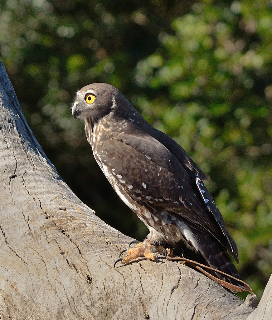 Barking Owl (Ninox connivens), Brisbane, Queensland, Australia